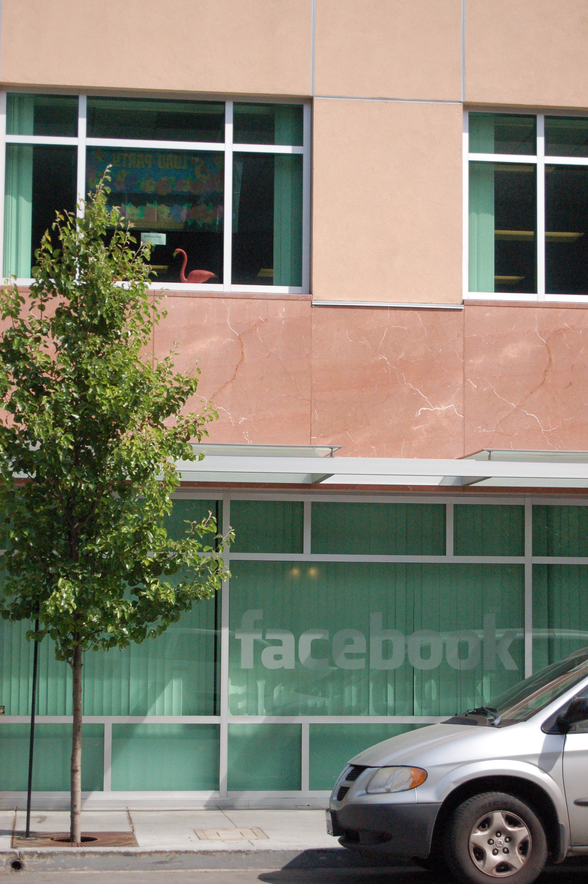 The Facebook headquarters in Palo Alto, CA (from the street).